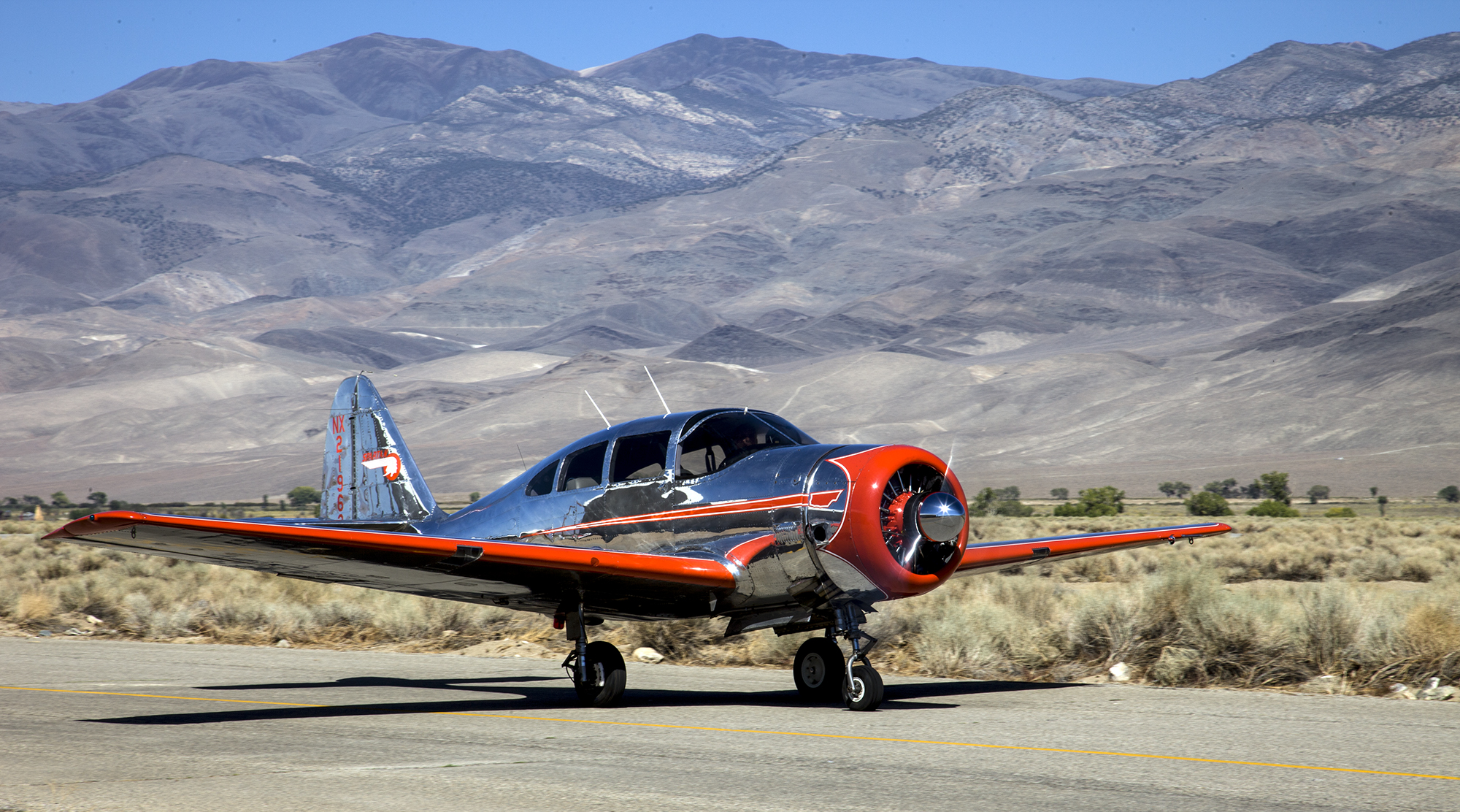 Manufactured after the Second World War, this particular plane was owned by Bishop, CA resident Dennis Nikolaus